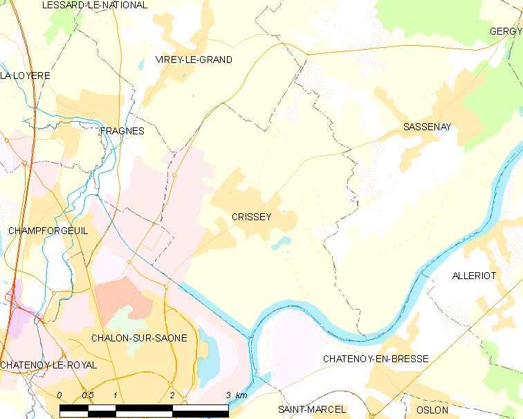 Map of French municipality